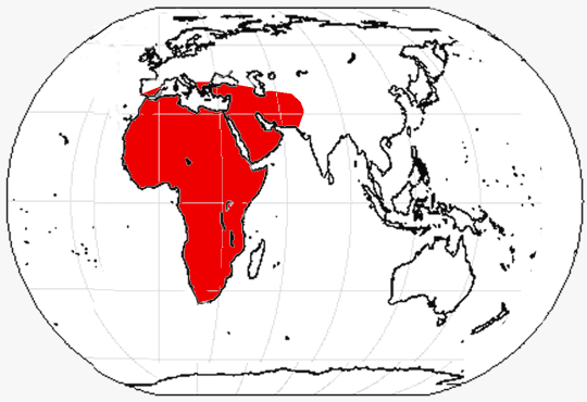 Range of Dinofelis